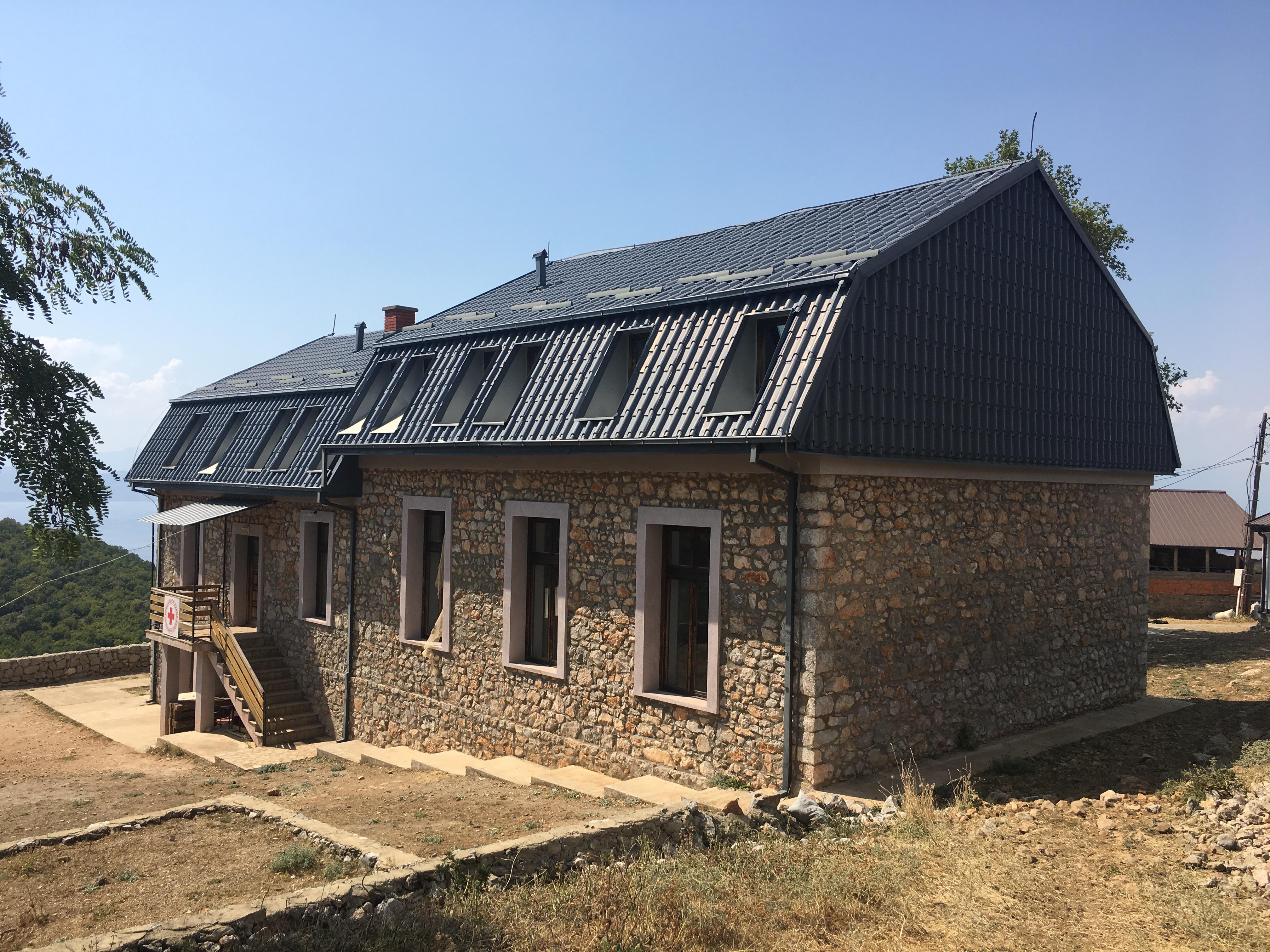 Building of the Red Cross in the village of Velestovo